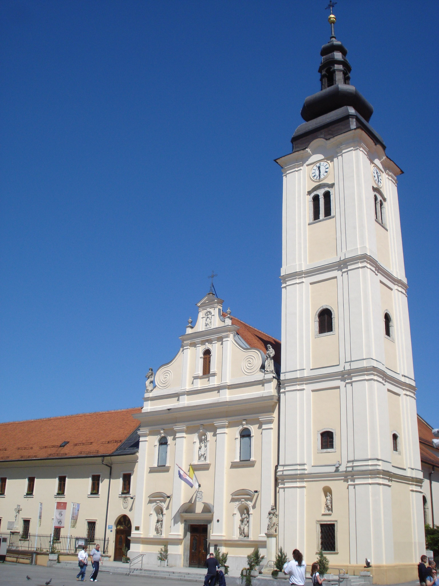 St. Nicholas (the bishop) Church, Čakovec - southeast view